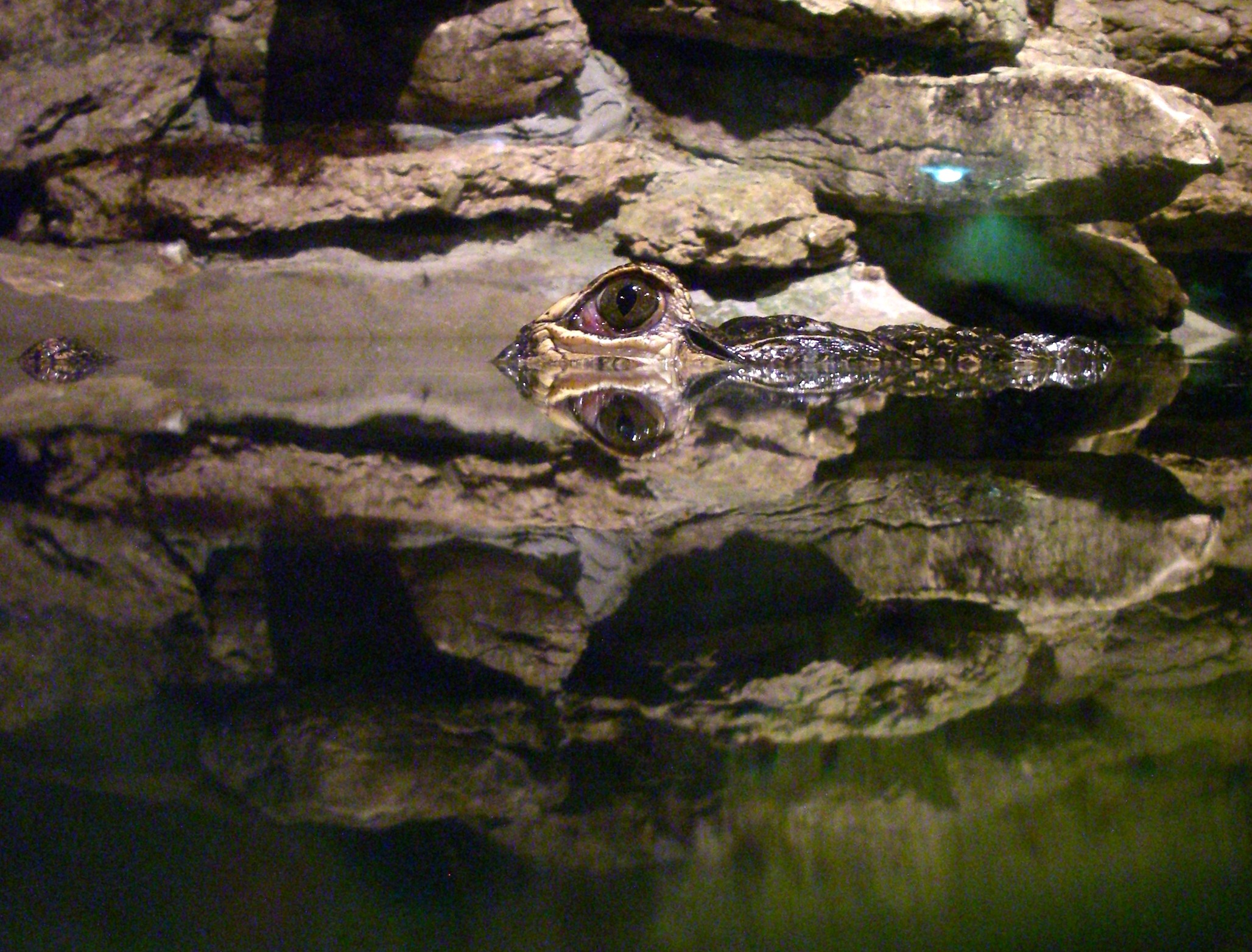 Reptilia aquarium